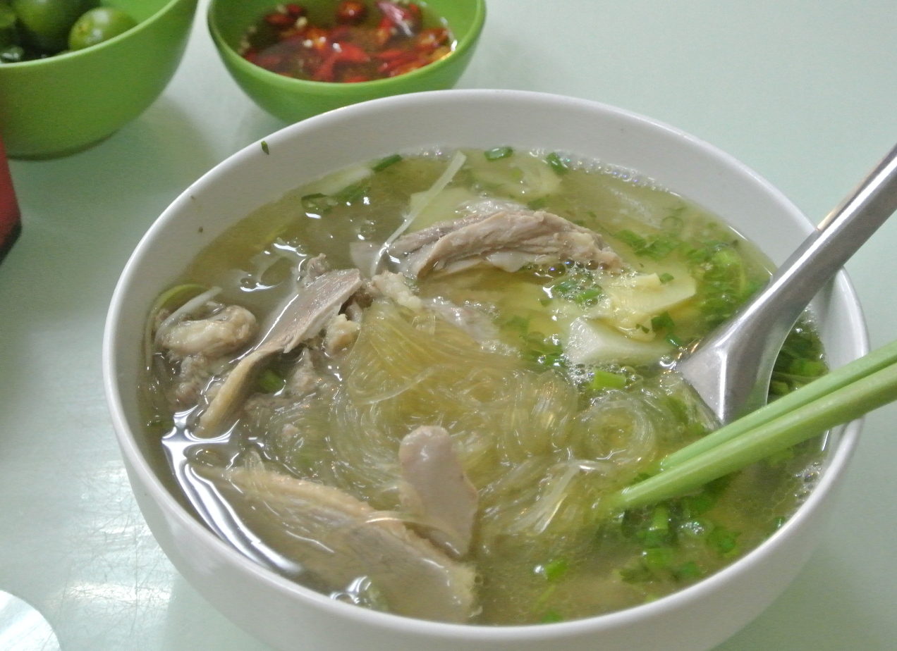 Vietnamese cuisine "mien ngan". at Ninh Binh city, Dec 2015.